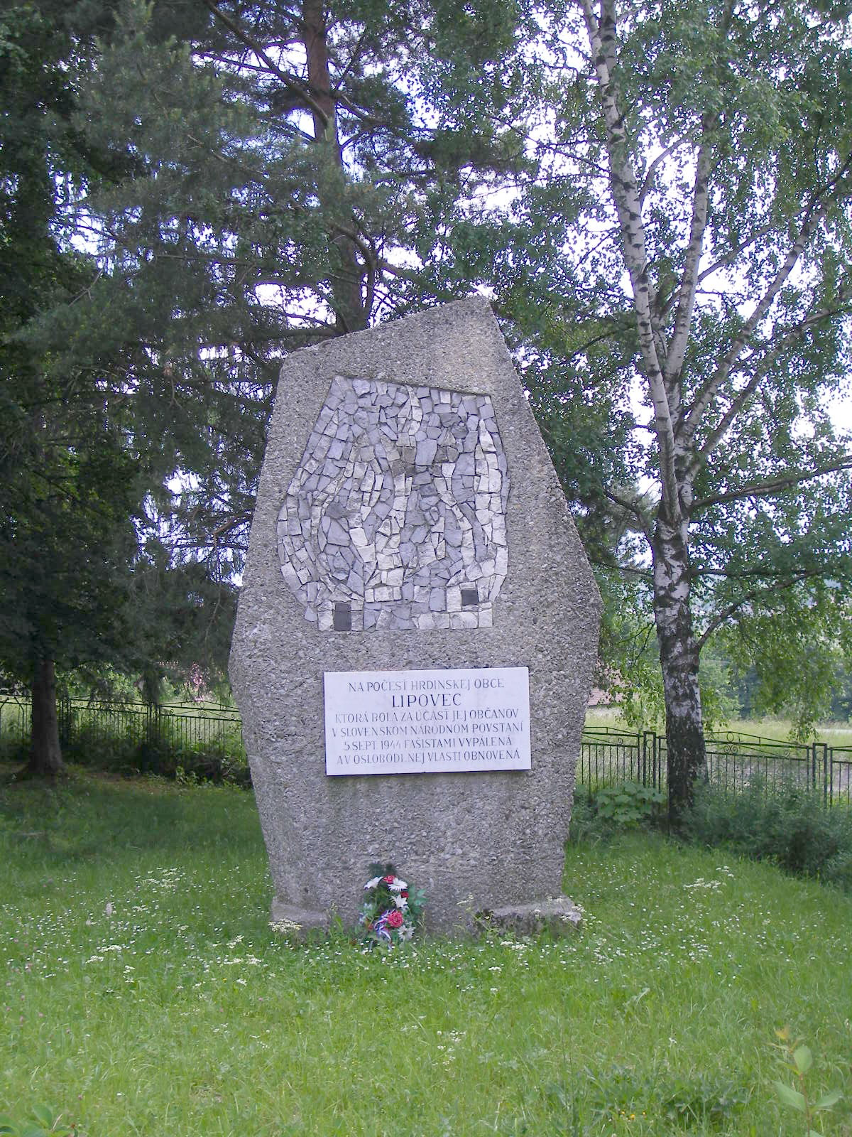 Lipovec - war memorial